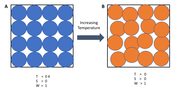 Figure showing entropy at absolute 0, and that entropy increases with temperature due to increasing numbers of microstates.